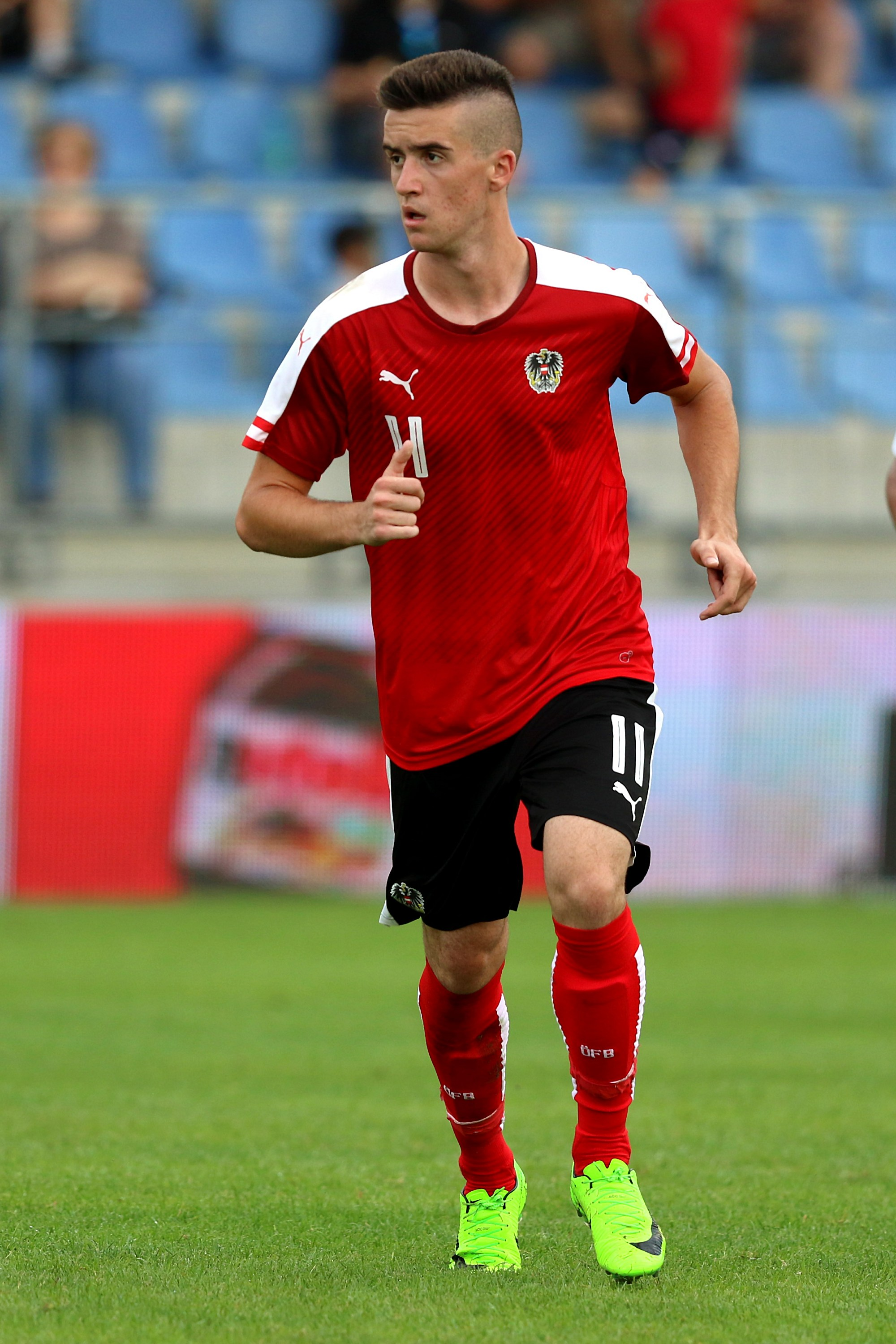 Friendly match: Austria U-21 (red shirts) vs. Hungary U-21 (white shirts) at 12. June 2017 in the Sonnenseestadion in Ritzing 2:1 (1:1) – The photo shows Arnel Jakupovic (FC Empoli)